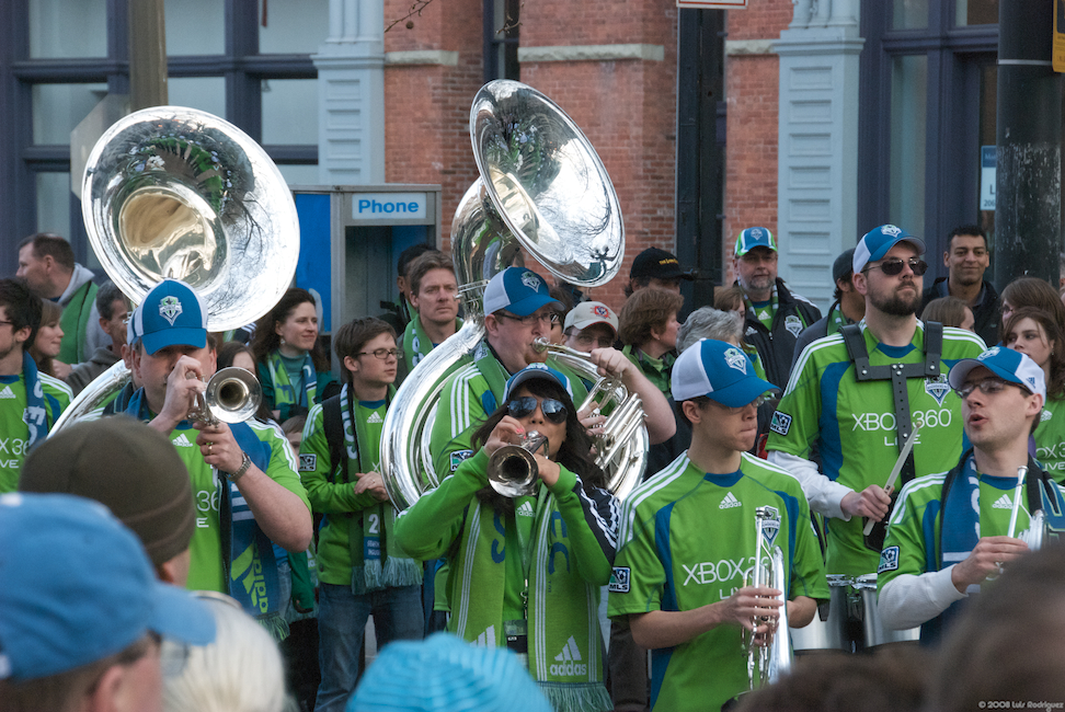 A fan band composed of Seattle Sounders FC supporters, taken in April 2009